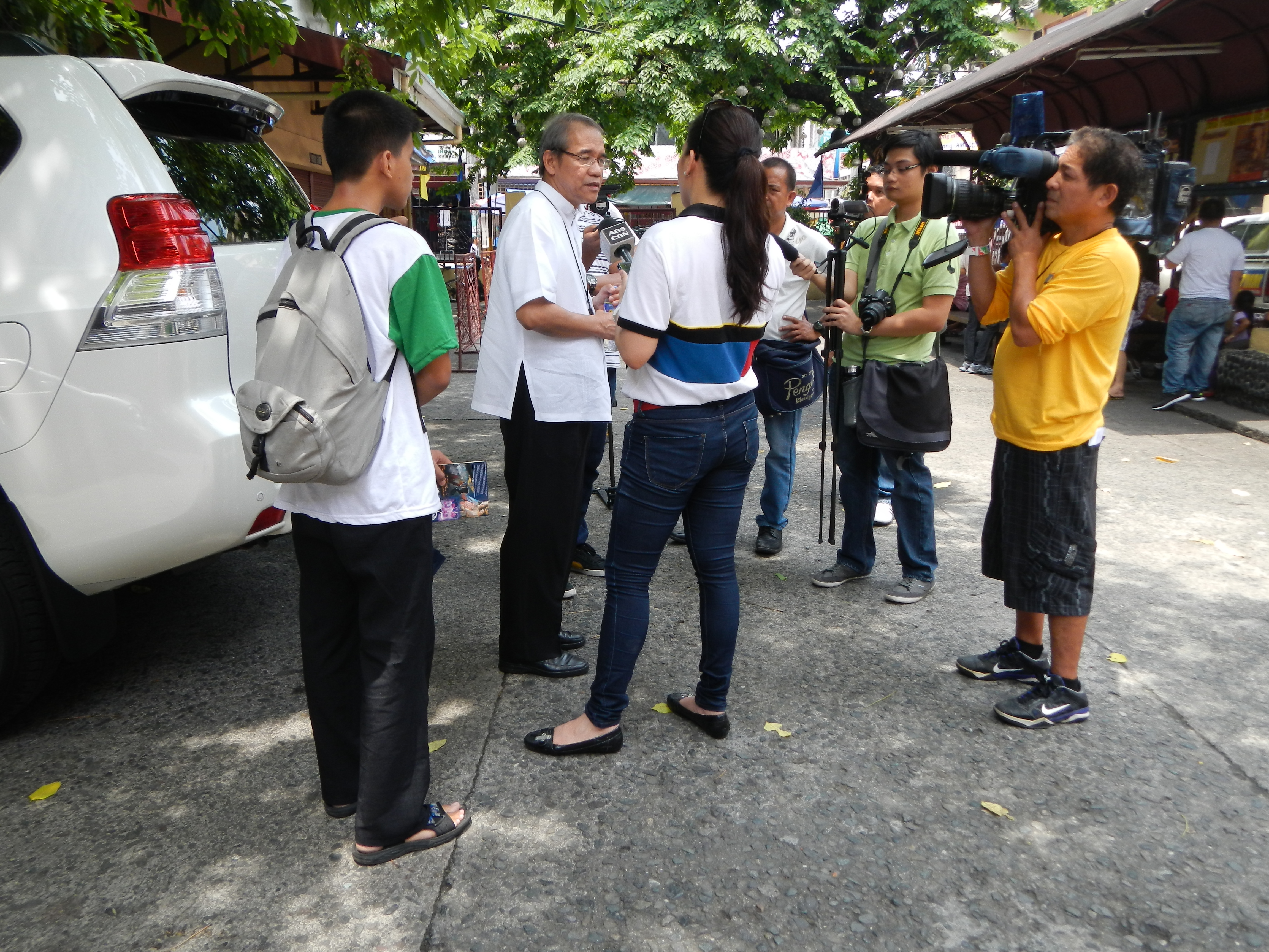 ABS-CBN TV Patrol Jasmin Romero interview of Auxiliary Bishop Most Rev. Bernardino C. Cortez of the Roman Catholic Archdiocese of Manila on June 8, 2013.